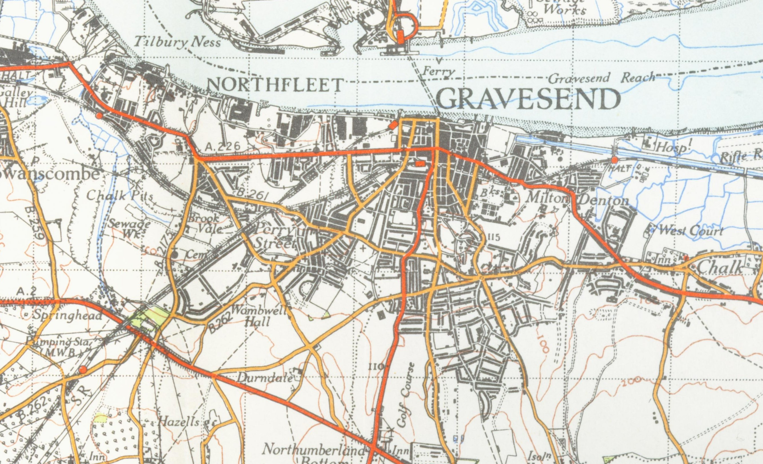 map of Gravesend 1 inch to the mile scale scanned at 600 DPI